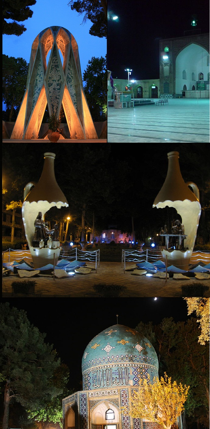 Nishabour